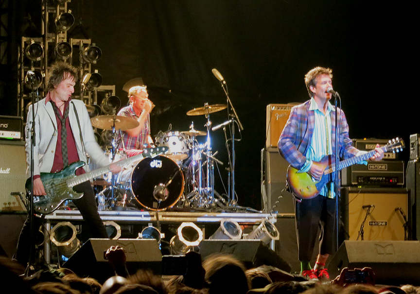 The Replacements reunite at Riot Fest Toronto on Sunday, August 25th, 2013